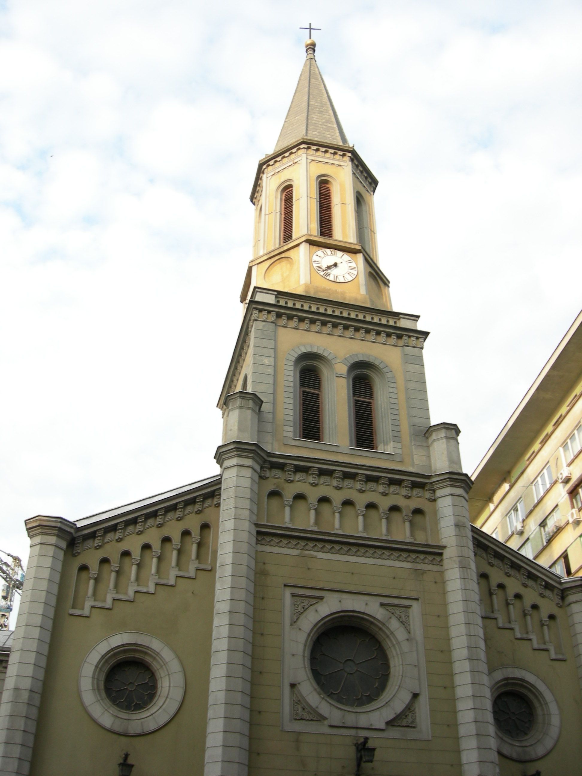 Lutheran Church, Bucharest, Romania.